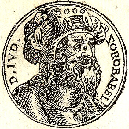 Zerubbabel was a governor of Judah (Haggai 1:1) and the grandson of Jehoiachin, penultimate king of Judah.